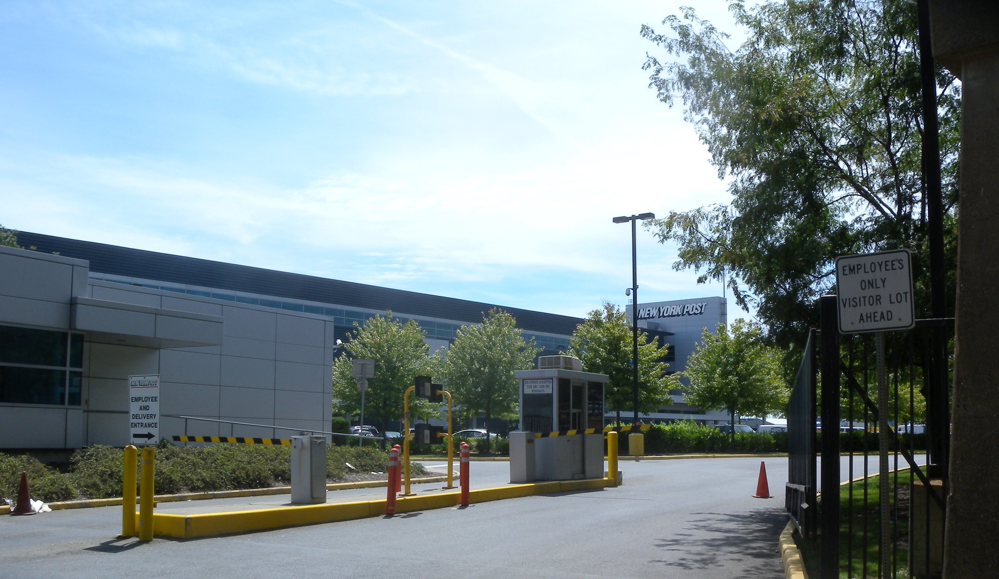 Looking south into 133rd Street gate of NYP printing plant on a sunny midday.